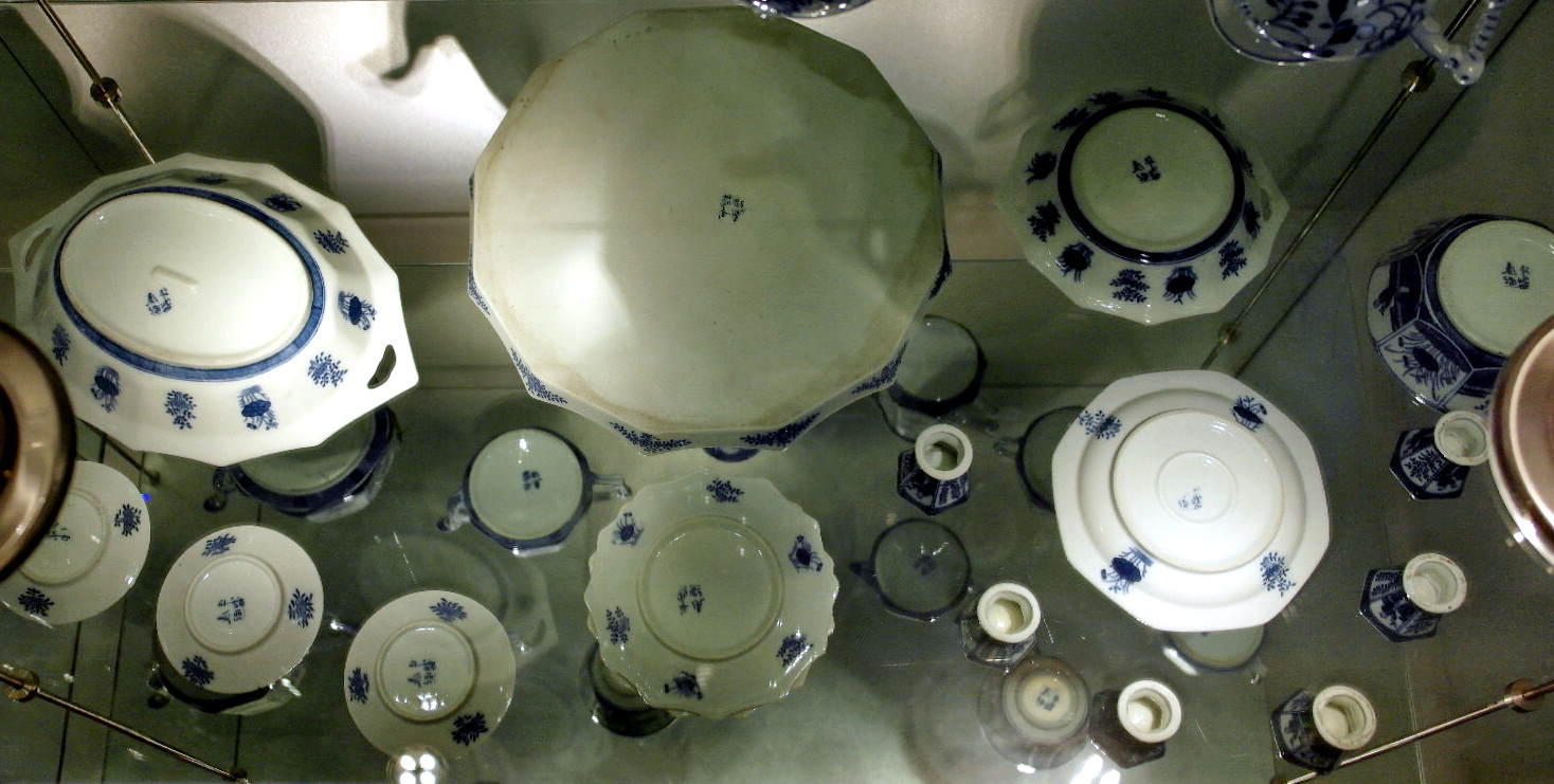 China tableware Lange Lijs, produced by Mosa potteries in Maastricht from around 1914 onward, Collection Henk van Buren, now in Centre Ceramique, Maastricht, the Netherlands.